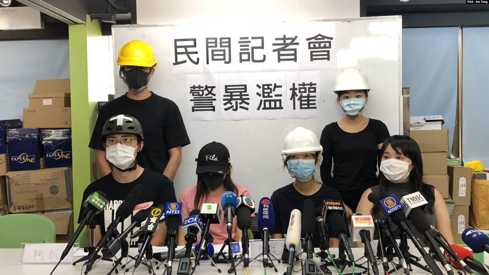 A "civil press conference" on 8 August 2019, protesters stating their ideas about the protests and the government.